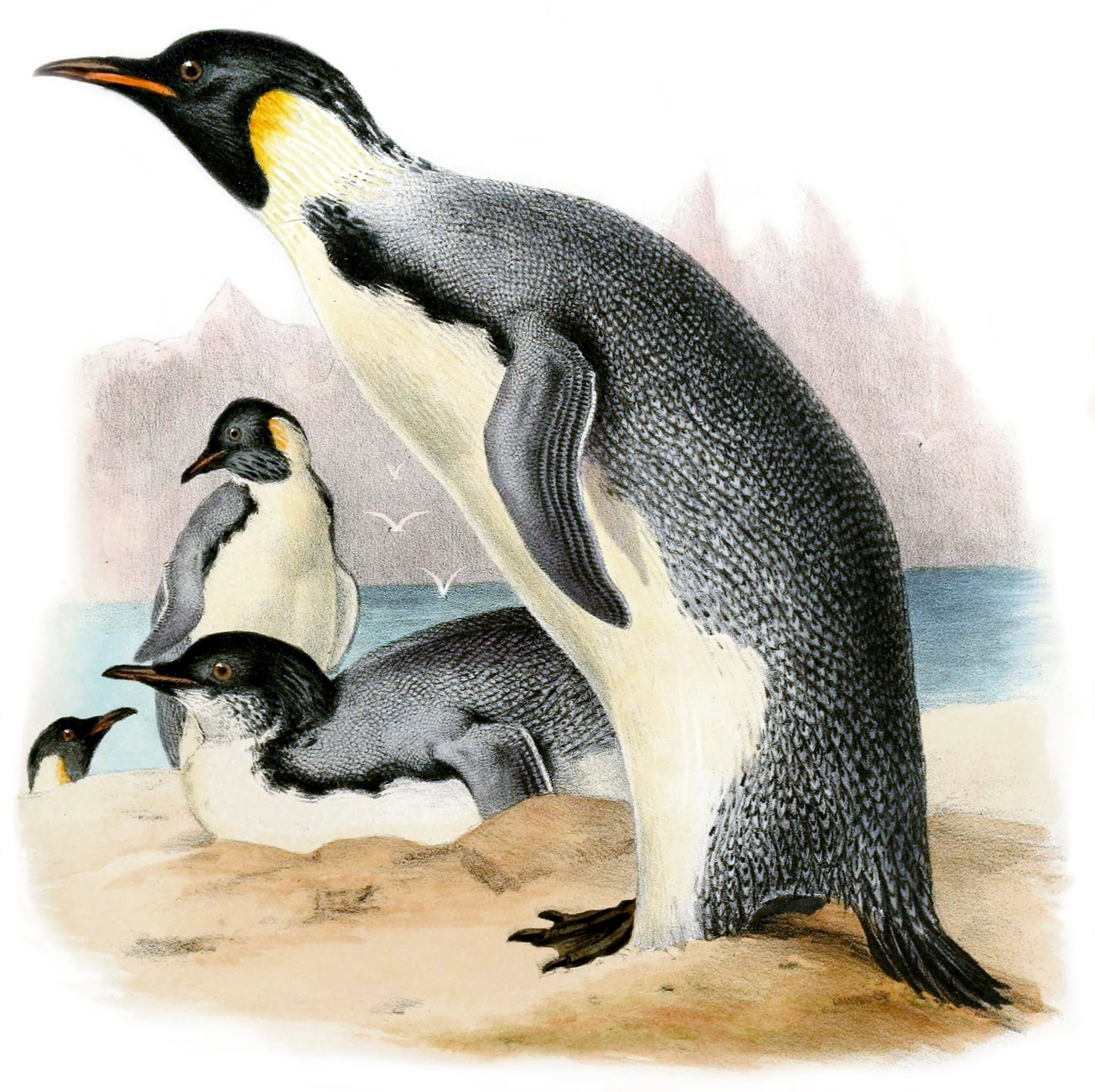 « Aptenodytes forsteri » = Aptenodytes forsteri (Emperor Penguin)